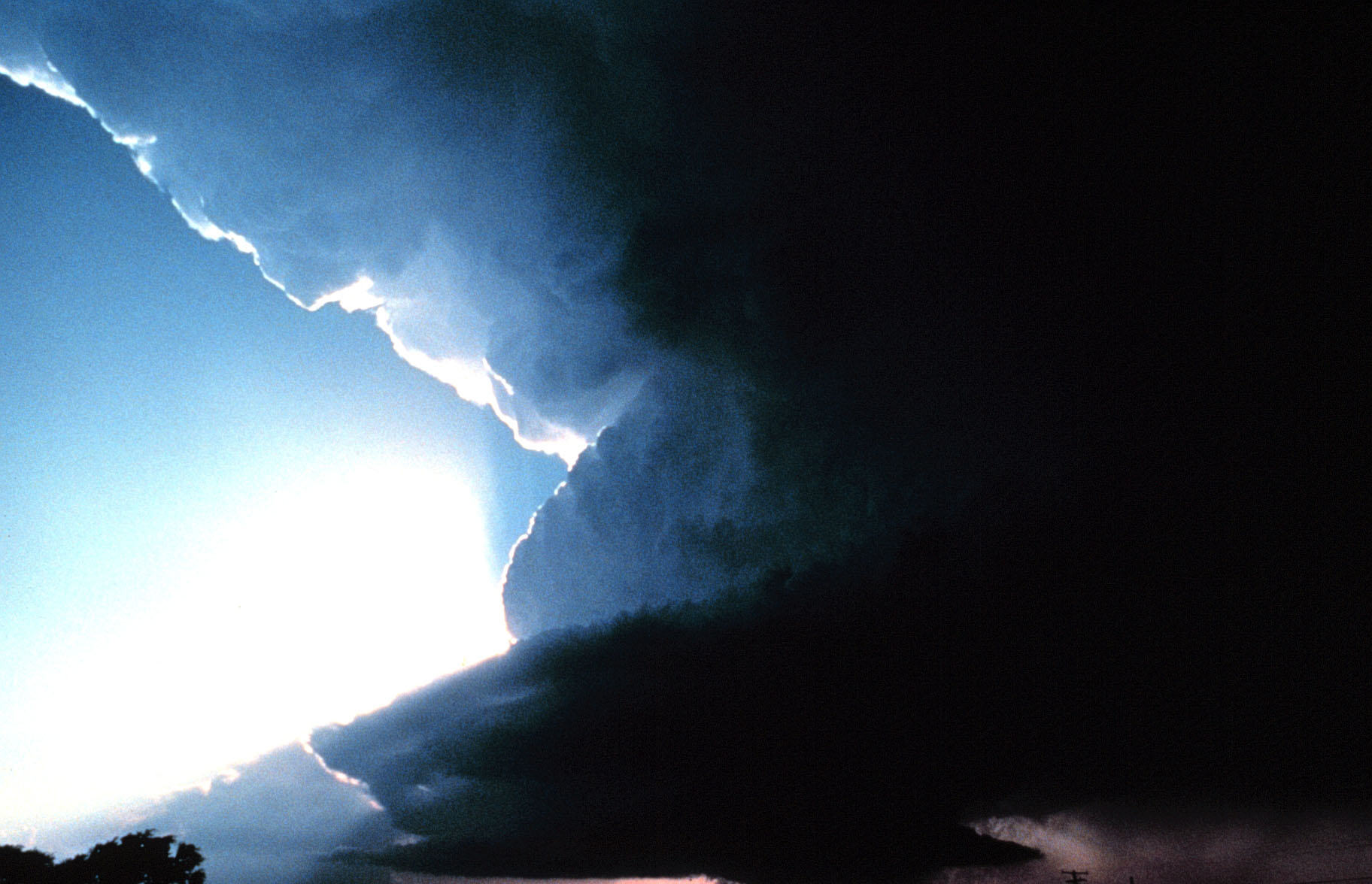 Supercell in Oklahoma - often associated with violent weather